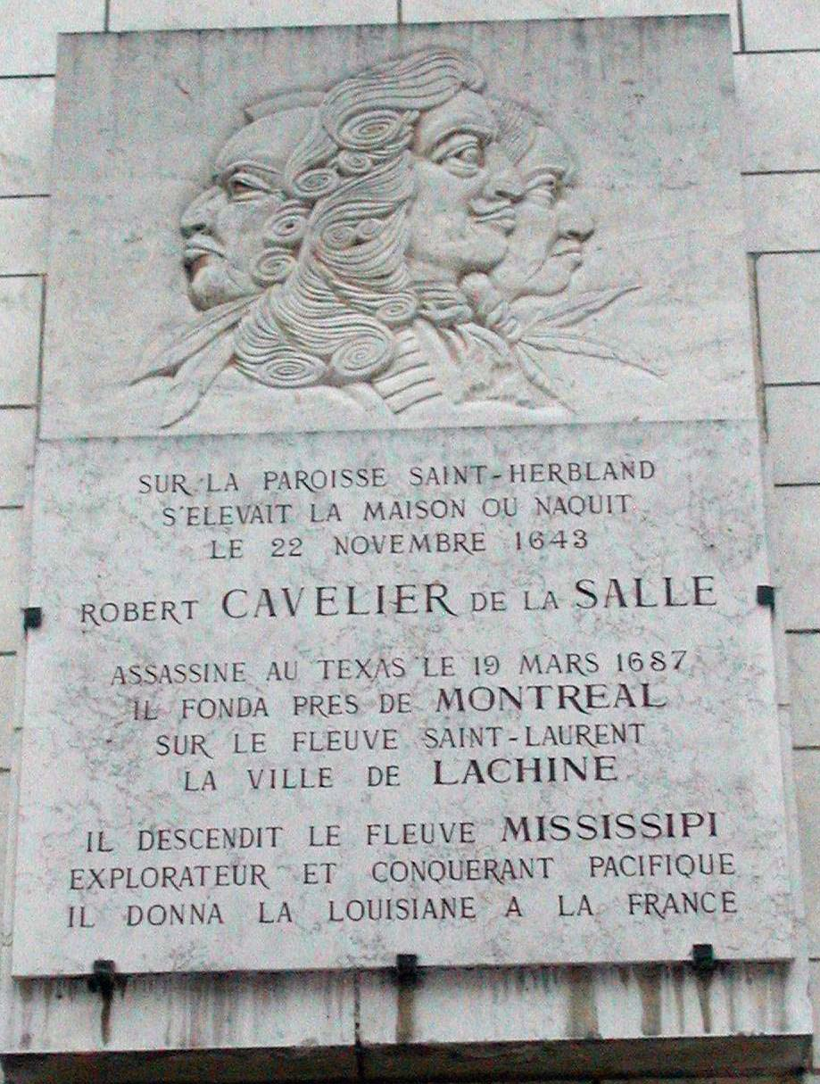 Cavelier de la Salle Picture from English WP